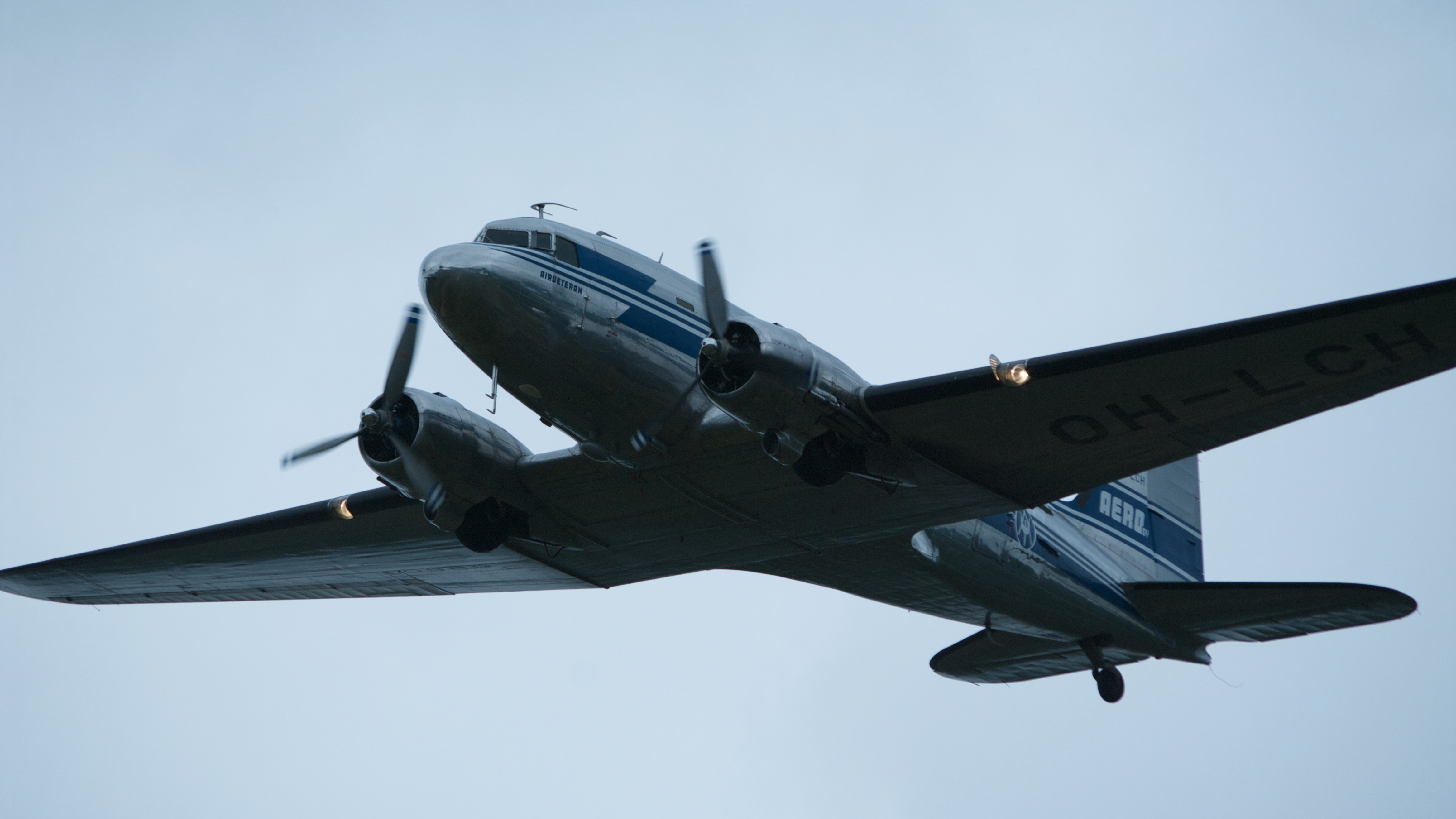 Douglas C-53C Skytrooper (DC-3) aircraft of DC-Yhdistys ry at Jämijärvi Airfield